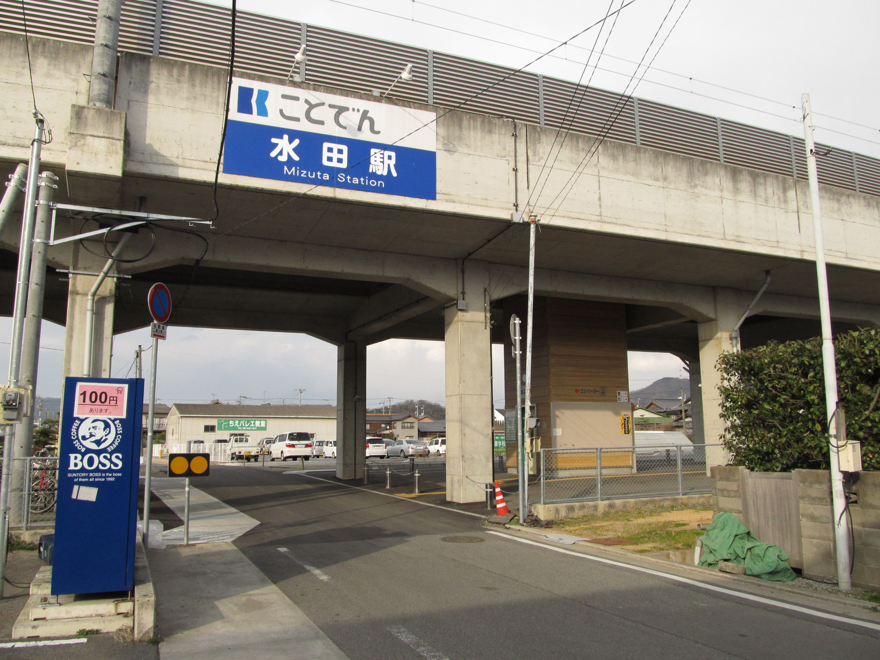 Takamatsu-Kotohira Electric Railroad Nagao Line Mizuta Station Underneath the elevated railway tracks